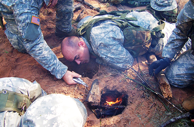 US Army Aviation School's Survival, Evasion, Resistance and Escape training photo, creating a Dakota hole